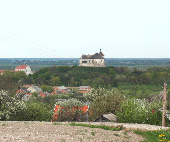 The castle in Olesko (Ukraine)